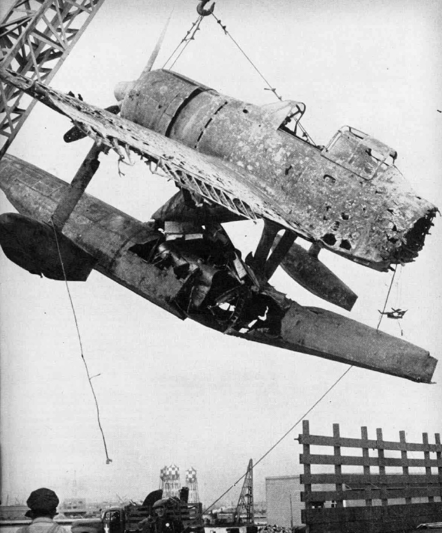 A Japanese Nakajima A6M2-N Rufe floatplane wreck at a U.S. base after having been salvaged in the Solomons in 1943.